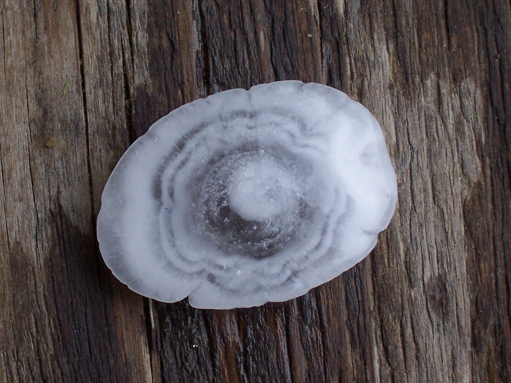 The centre of a large hailstone with alternate layers of opaque and transparent ice.